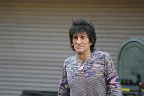 Ron Wood - Guitar Player - The Rolling Stones. In Atlanta 2005 shooting music video.